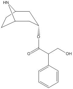 Structure of Noratropine drawn with chemdraw